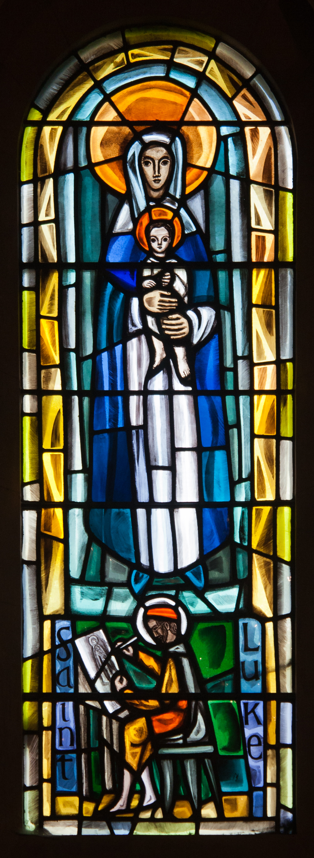 Stained glass window in the Chapel of Laurence O'Toole, depicting Virgin and Child with Saint Luke, created by Patrick Pollen in memory of his teacher Catherine O'Brien of An Túr Gloine who died in 1963. Patrick Pollen (1928–2010) Description stained-glass artistDate of birth/death 12 January 1928 30 November 2010 Location of birth/death London Co. WexfordWork period1953–1997Work location Dublin; Salem, North CarolinaAuthority control : Q20273783 VIAF: 172308461 ISNI: 0000 0001 2251 9717 GND: 1013827864 creator QS:P170,Q20273783